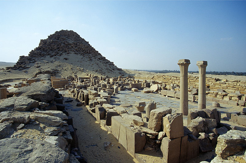 Pyramid complex of Sahure, view to the west, Abu Sir, Egypt